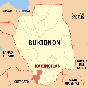 Map of the Bukidnon showing the location of Kadingilan